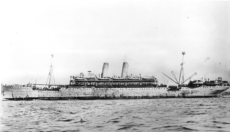 USS Princess Matoika (ID # 2290) Underway in 1919, while transporting U.S. troops home from Europe. U.S. Naval Historical Center Photograph.